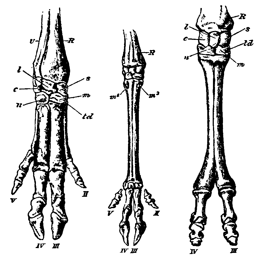 Bones of right fore feet of existing Artiodactyla. From left to right: Pig (Sus scrofa), Red deer (Cervus elaphus), and Camel (Camelus bactrianus). U = ulna, R = radius, c = cuneiform, l = lunar, s = Scaphoid, u = Unciform, m = Magnum, td = Trapezoid. In the Sheep and the Camel, the long compound bone, supporting the two main (or only) toes is the cannon-bone.